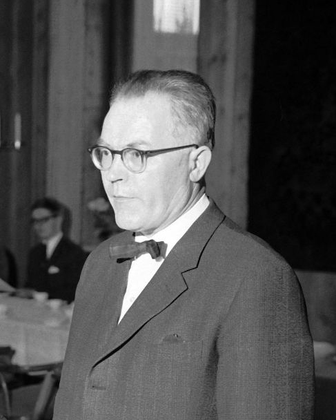 Photograph of the Finnish philosopher Oiva Ketonen (1913–2000).